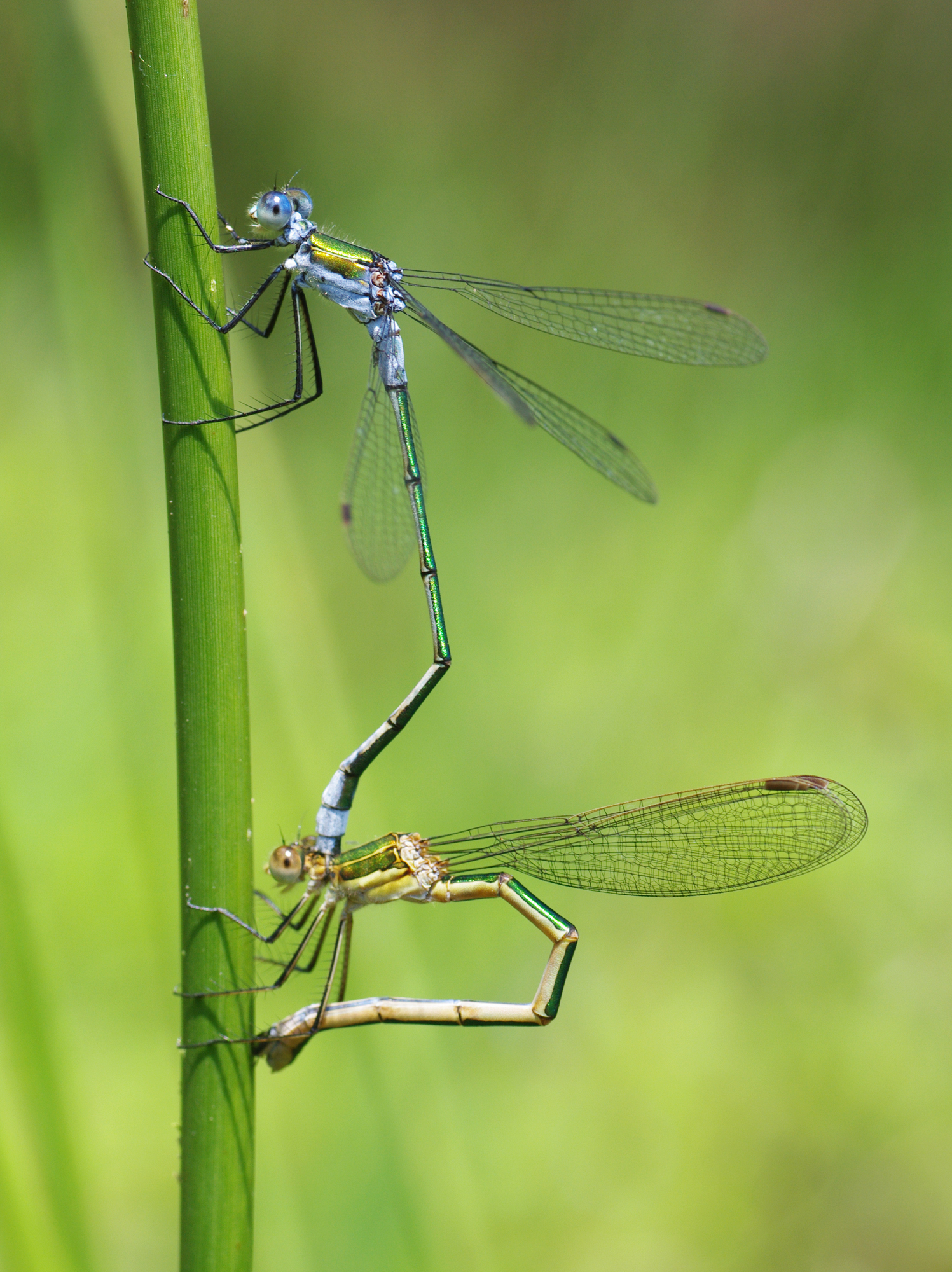 Pair of the Emerald Damselfly (Lestes sponsa), ovipositing at grass stalk.